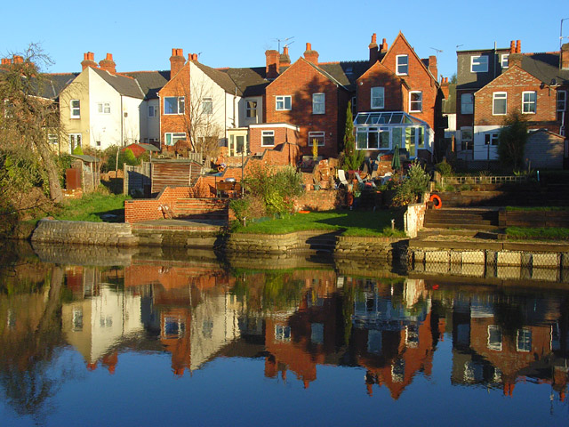 Houses beside the Kennet, Reading Houses on Elgar Road viewed from the western bank of the river.